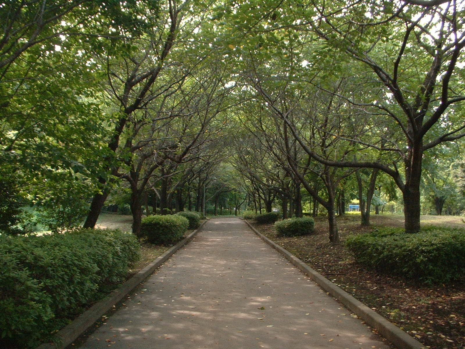 Avenue in Shiroyama Park, Okegawa City, Saitama Prefecture, Japan